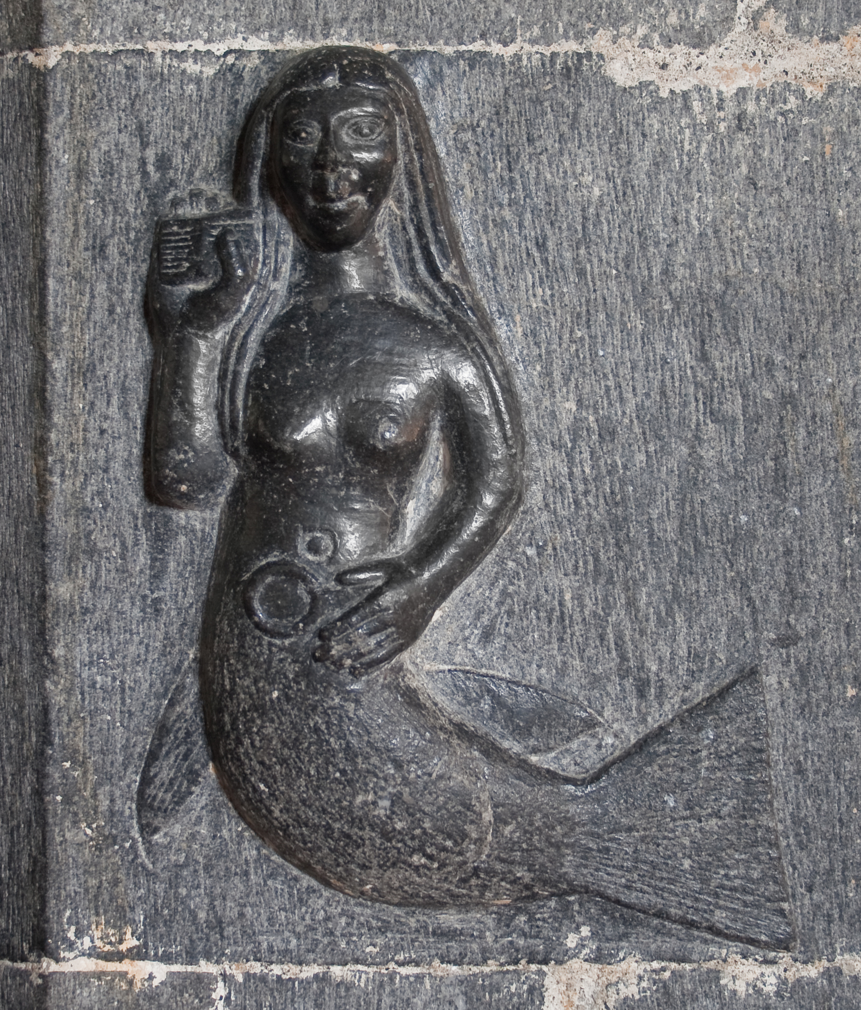 Clonfert Cathedral, Clonfert, County Galway, Ireland 15th-century carving of a mermaid with comb and mirror at the southern pier of the chancel arch. Photographed in the natural evening light. The mermaid can be interpreted as an allusion to St Brendan, the patron of Clonfert Cathedral. To quote one of the surving texts of Brendan's voyage: When all this was over at last, they resumed their journey and once more got into great difficulties, because they saw a beast coming towards them with a human body and face, but from the waist downwards it was fish. It is called a siren, a very lovely creature with a beautiful human shape; it sings so well and its voice is so sweet that whoever hears it cannot resist sleep and does not know what he is doing. When this sea monster approached them, the shipmen fell asleep and let the ship drift: the monks too forgot themselves completely because of its voice and did not know where they were. (See The Voyage of St Brendan, ISBN 0-85989-755-9, p. 141.) According to Colum Hourihane, the mermaid is commonly represented in Romanesque sculpture throughout Europe but they do not appear in Irish art before the 13th century and are comparatively rare after that. Only five such examples are recorded. He writes: Placed at the entrance to either the chancel or the body of the church these symbols must have warned the worshipper of the evils of sin and the need to resist temptation (especially of the flesh) in all its forms. (See Colum Hourihane: Gothic Art in Ireland 1169–1550, ISBN 0-300-09435-3, p. 93.)